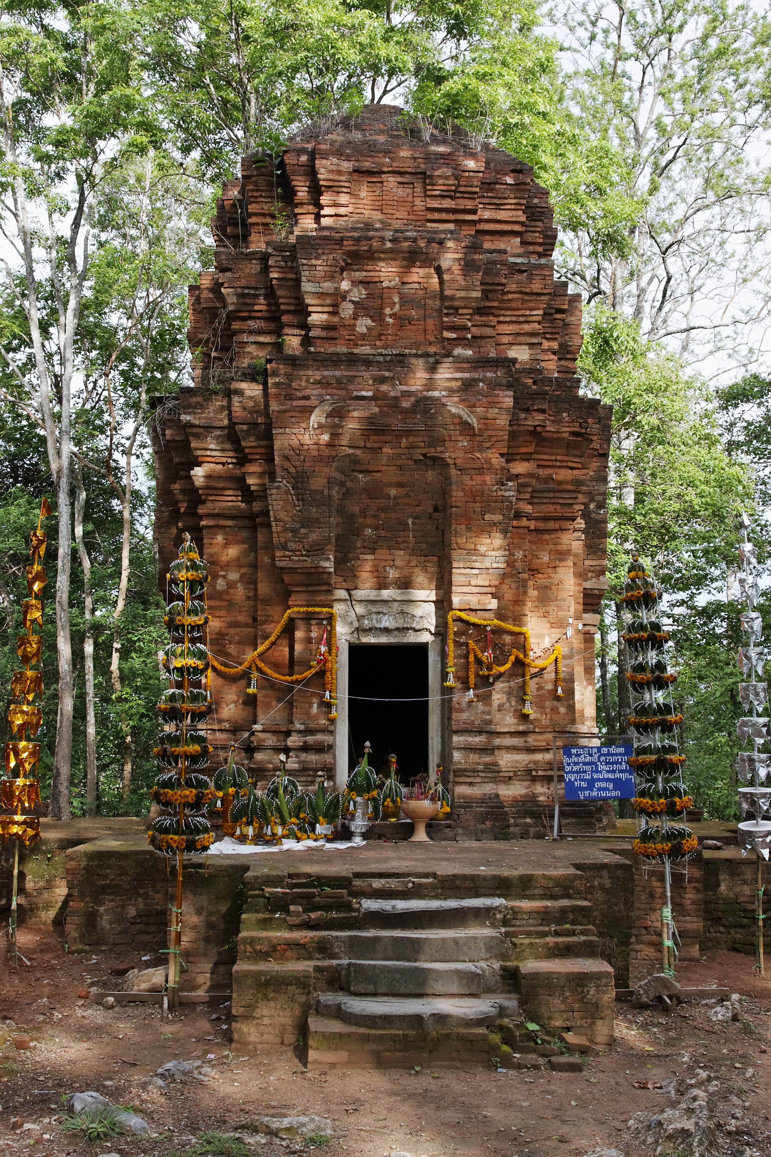 Prasat Khao Noi, Thailand